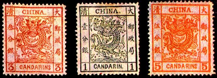 1-candareen stamp of 1878, Chinese Qing dynasty